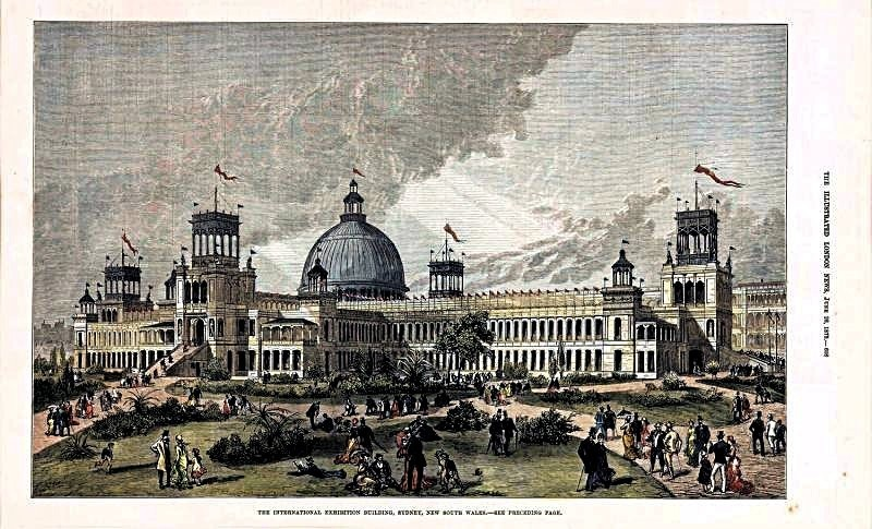 "The International Exhibition Building, Sydney" (hand-coloured) from the "Illustrated London News", june 28, 1879.